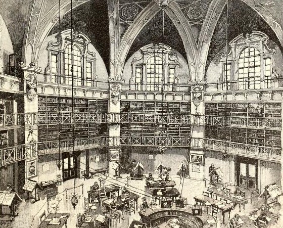 Drawing of the Reading Room, the People's Palace, Mile End Road, London. Illustration from the Century Magazine, December 1890, p. 175.